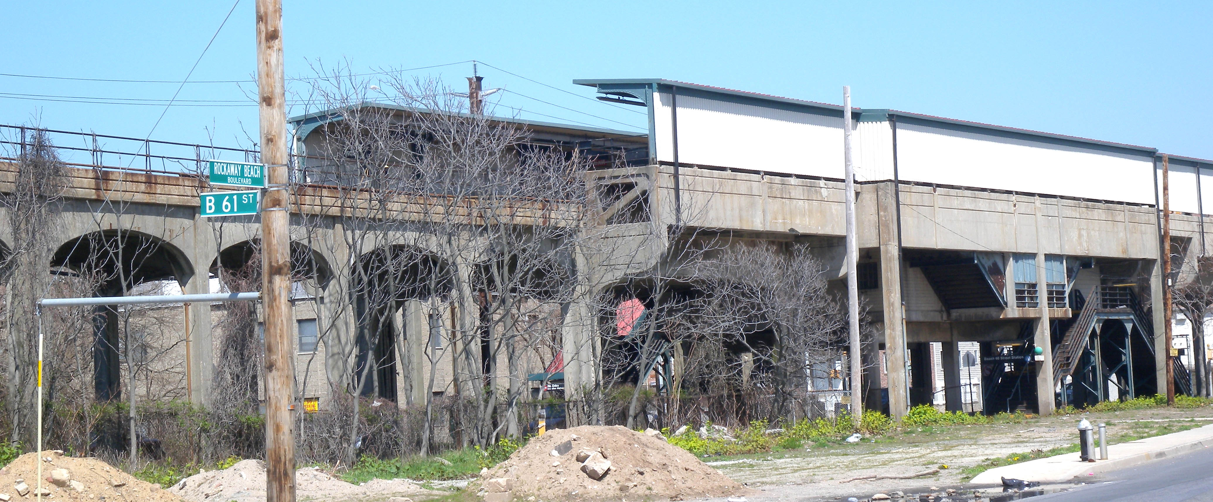 Looking northeast at Beach 60th Street (IND Rockaway Line) station.